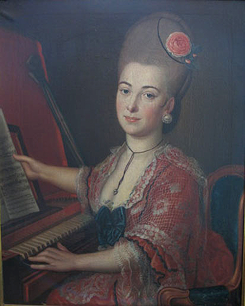 Marie Christine Schiønning, née von Nägler (1755-1827), Danish noblewoman